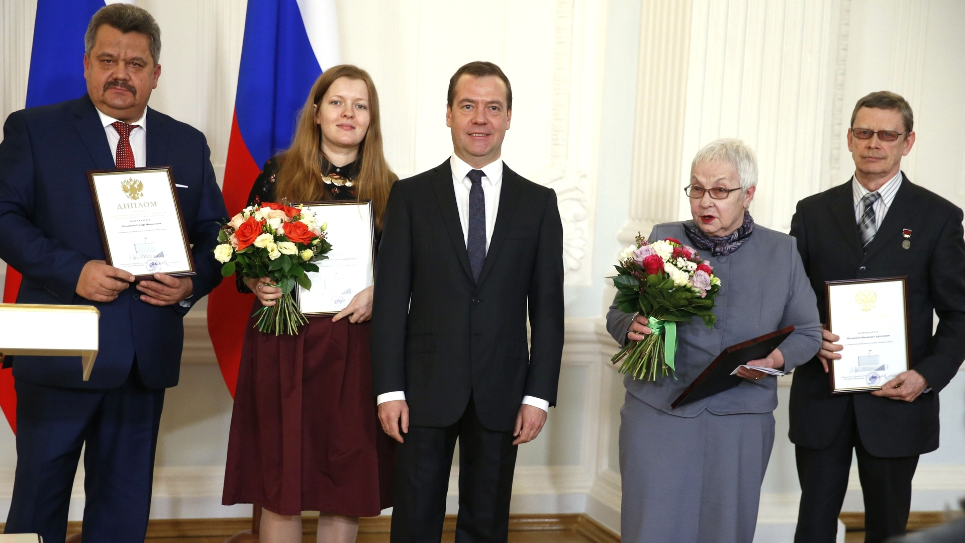 Dmitry Medvedev with journalists of "Zolotoy Klyuchik" (Lipetsk)